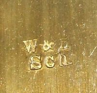 Maker's mark of Winterhalder and Hoffmeier, Victorian German clockmakers